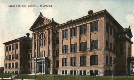 Milwaukee West Side High School 1905 of a picture post card